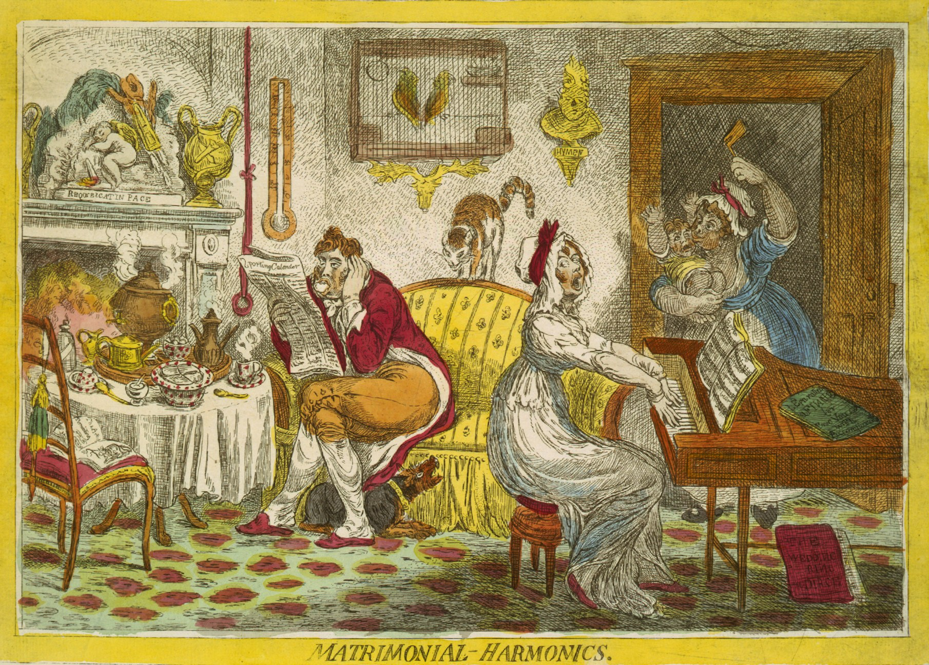 Caricature "Matrimonial harmonics" by Gillray -- a couple whose courtship was almost purely musical (see the companion caricature Image:1805-Gillray-Harmony-before-Matrimony.jpg), but who never had much in common except music, are shown in a sorry state several years after marrying. The husband is now much less interested in music than is the wife, while the wife is more interested in it than in her duties as a wife and mother. This pair of caricatures satirizes the system by which middle- and upper-class girls were taught music, drawing, and French in order to attract a husband -- an education which didn't necessarily help them to make the best of living in marriage. Compared to the first caricature in the series, the lovebirds in the cage are now facing away from each other, and Cupid is dead (with an RIP inscription). Library of Congress description: "The couple torment each other in the breakfast room..." (Source: George). 1 print : engraving, color.